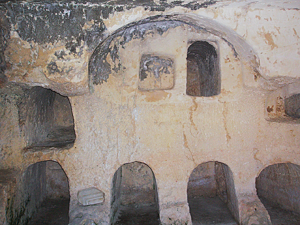 Akeldama